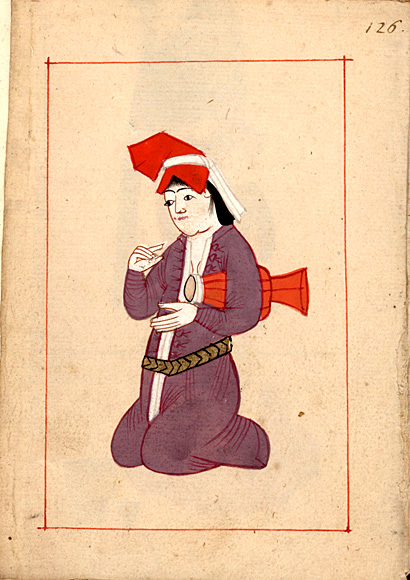 Military Pictures from the Ralamb Costume Book, 1657